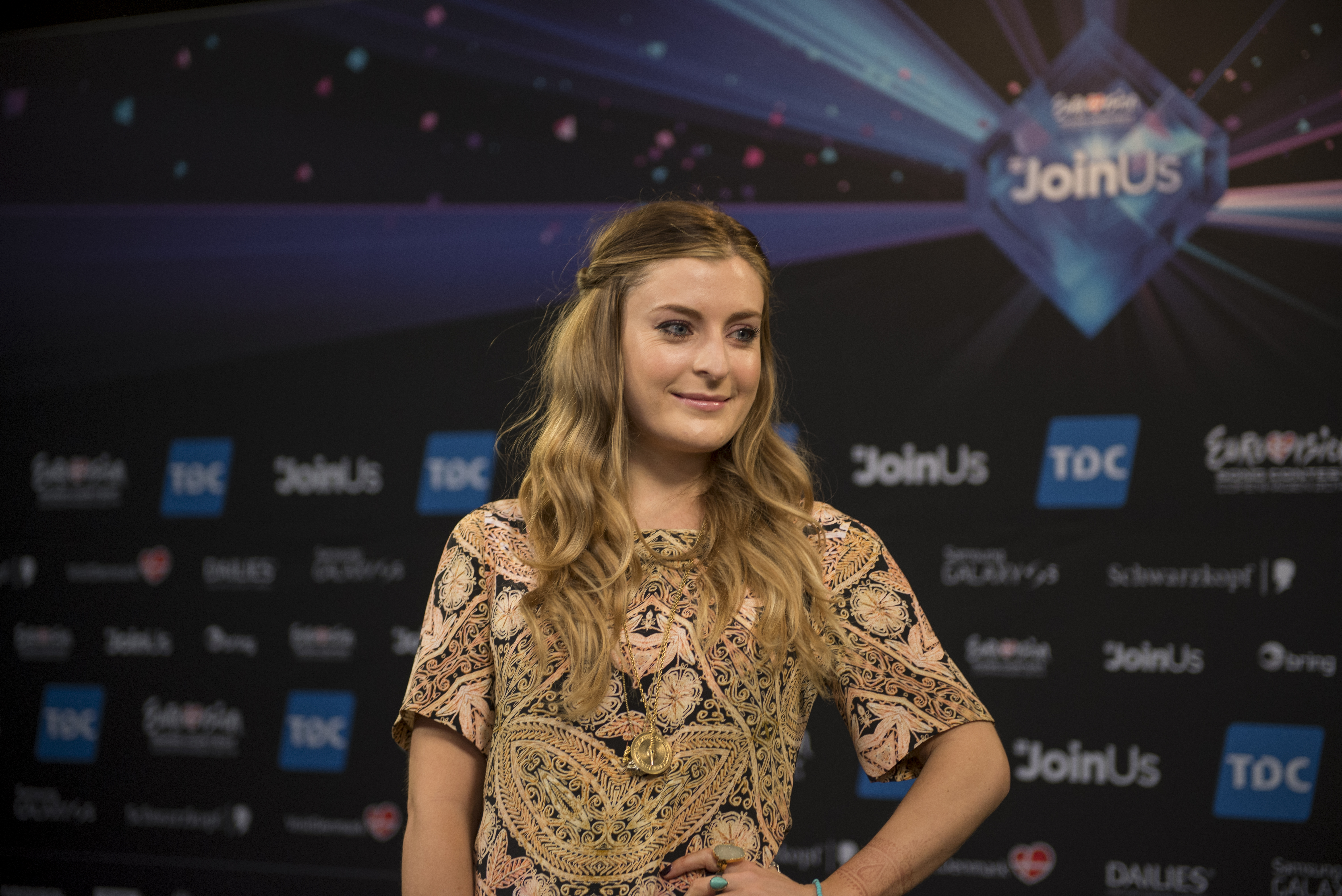 Molly Smitten-Downes at a press conference during the Eurovision Song Contest 2014 Copenhagen. (Help translate this text)